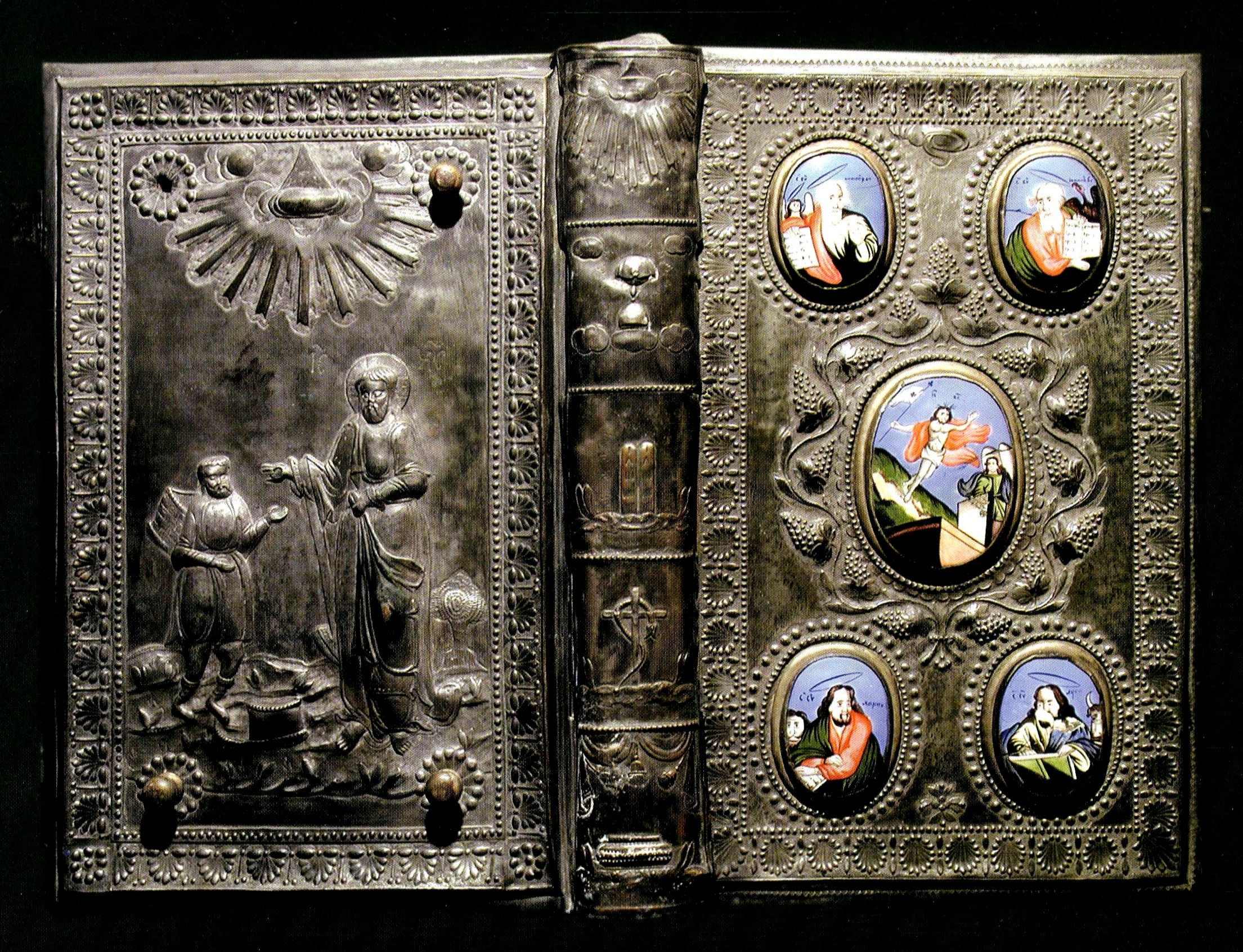 COVER OF THE GOSPEL. 19th с. Metal, minting, painting-enamel. The Holy Virgin Nativity Church. Liakhavichy. Dragichyn district, Brest region.